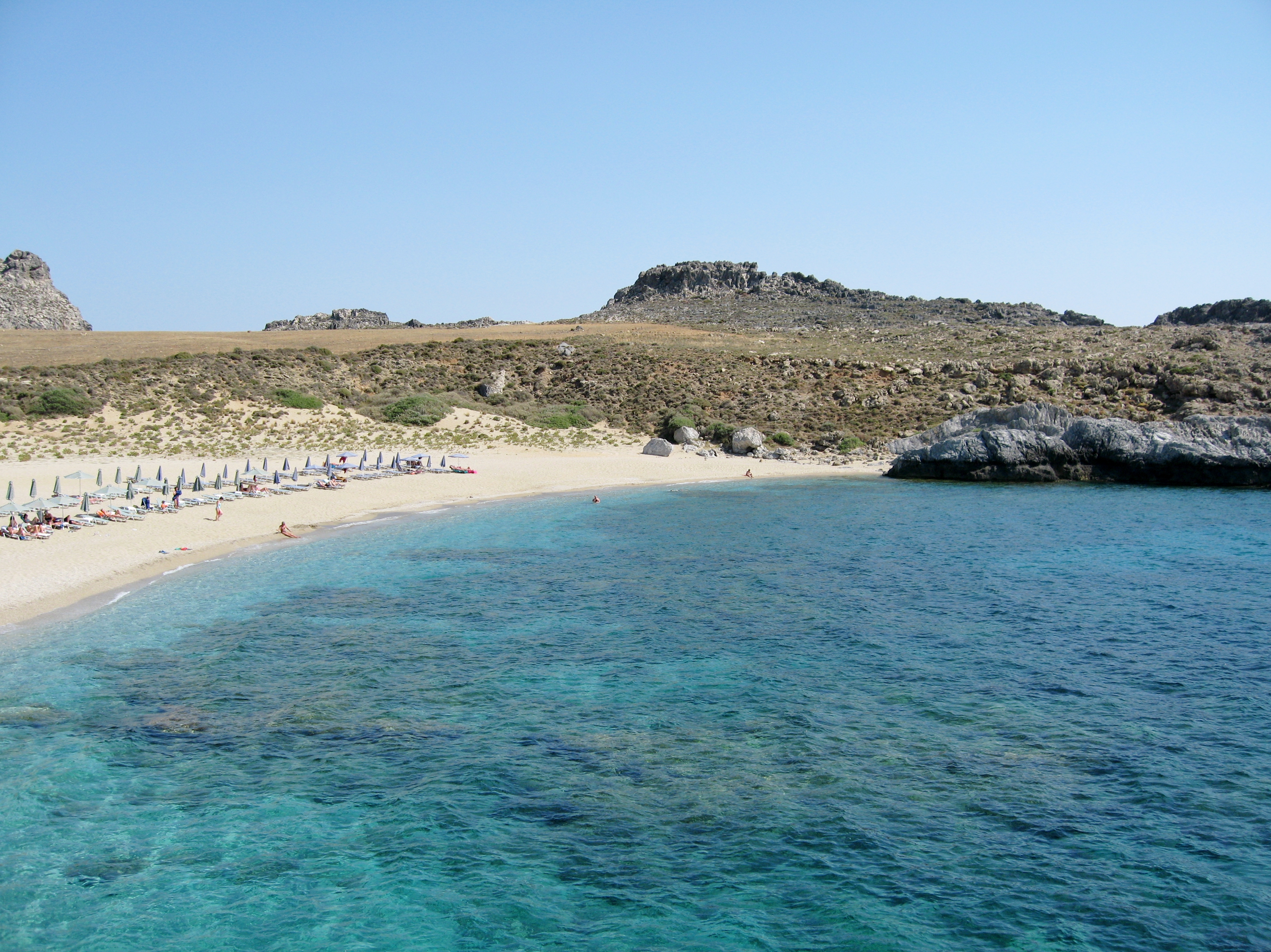 Schinaria, Finikas, Rethymno prefecture, Crete, Greece